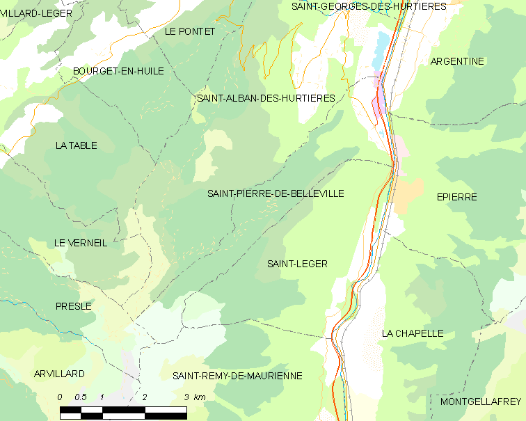 Map of French municipality Saint-Pierre-de-Belleville